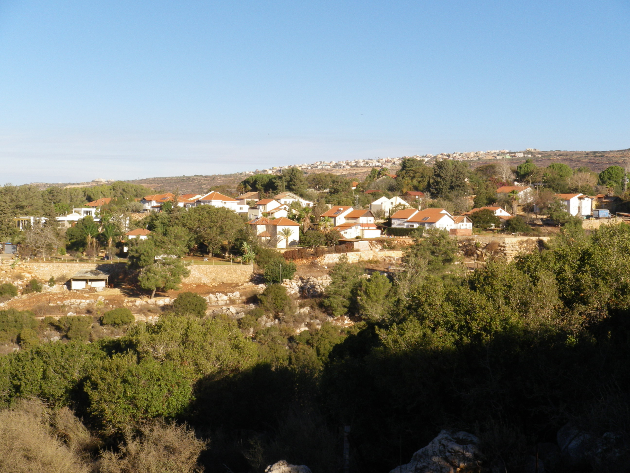 Landscape of Moshav Lapidot, in the north of Israel.